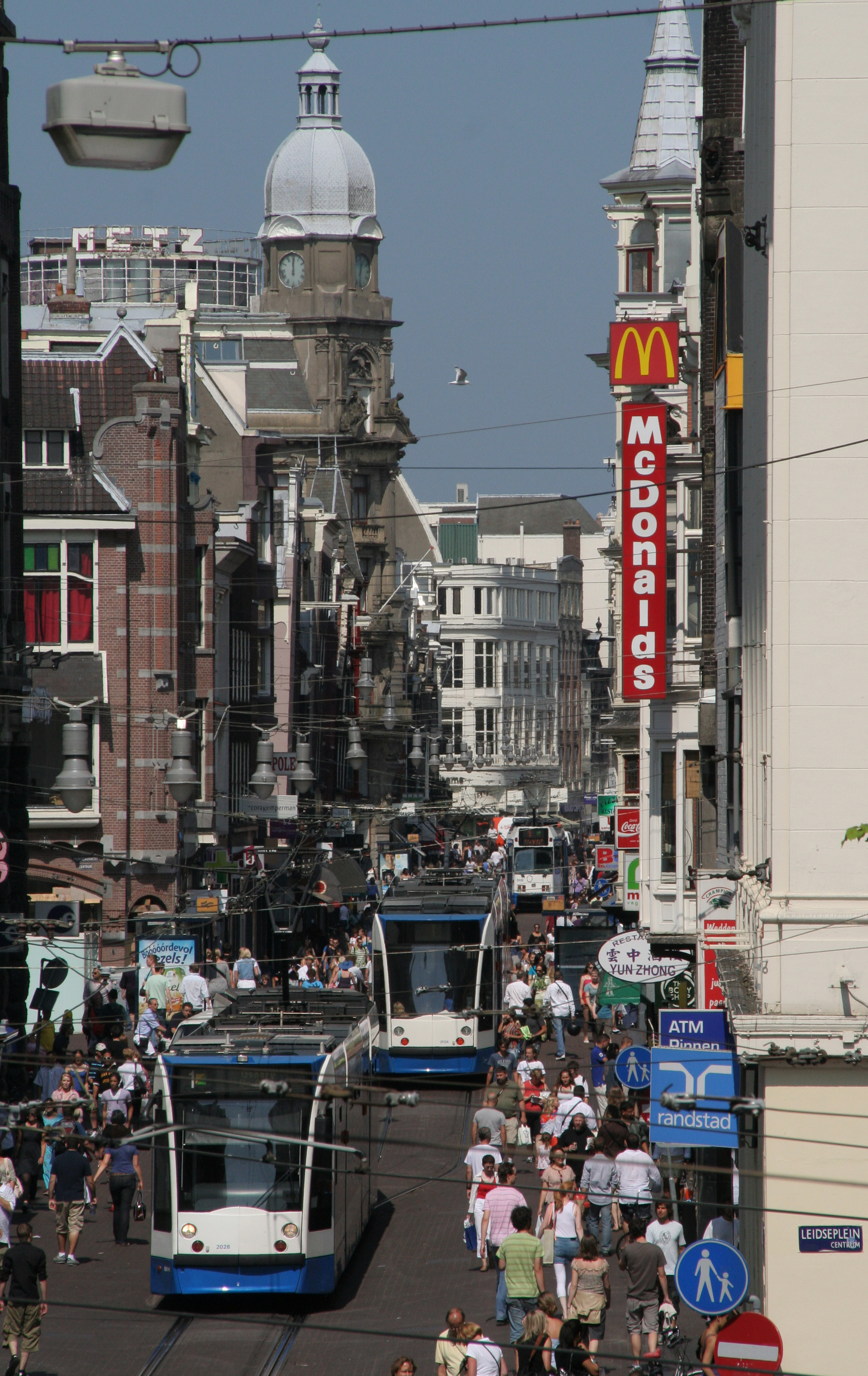 Trams in Leidsestraat, Amsterdam